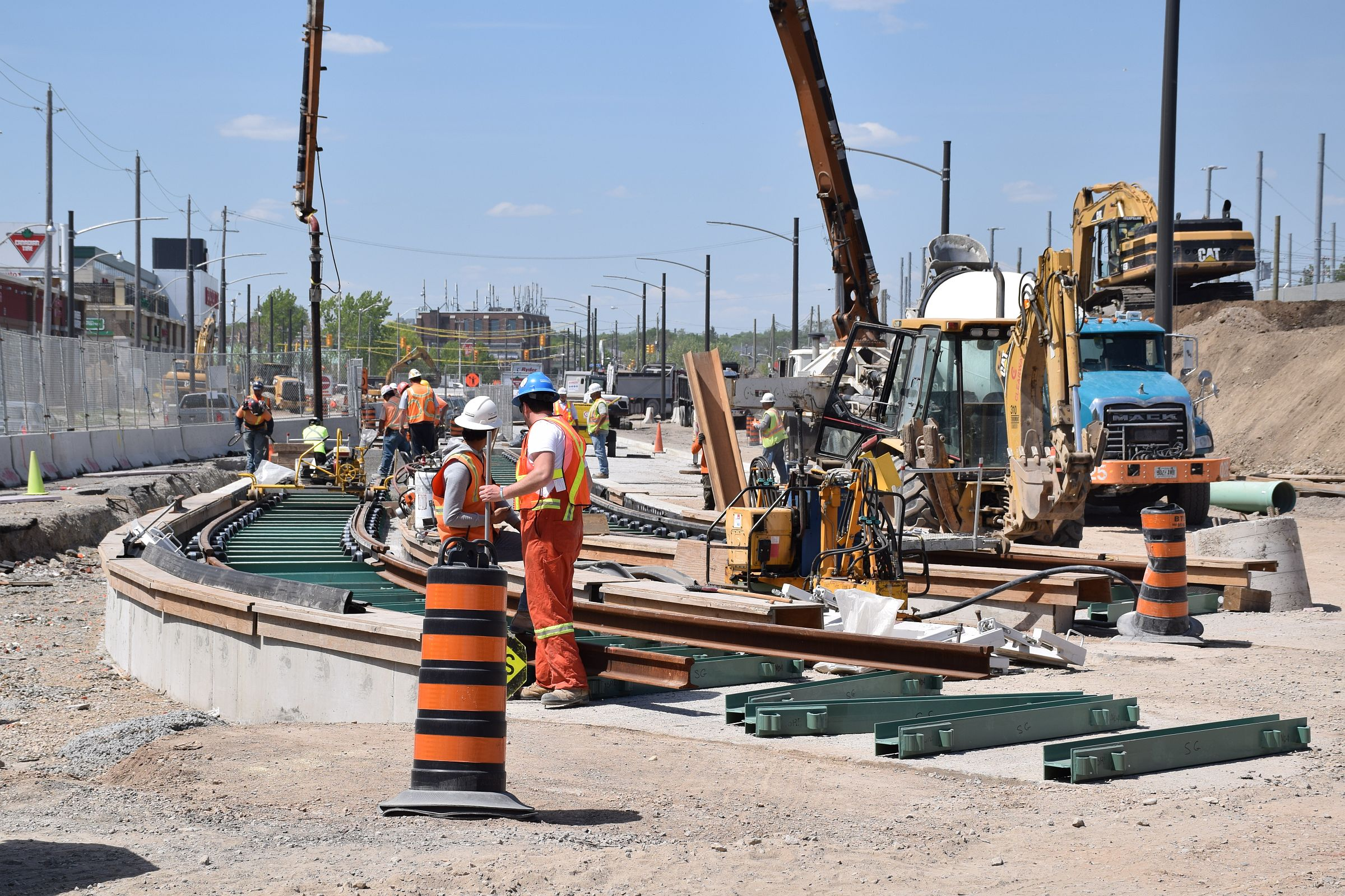 Tracks to Leslie Barns under construction turning into the yard